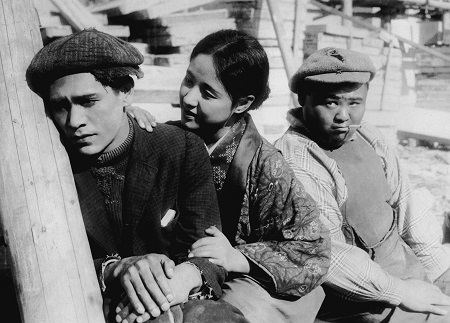 From left to right : Kōji Shima, Hisako Takihana and Kunio Tamura in Ase (汗) directed by Tomu Uchida - 1929